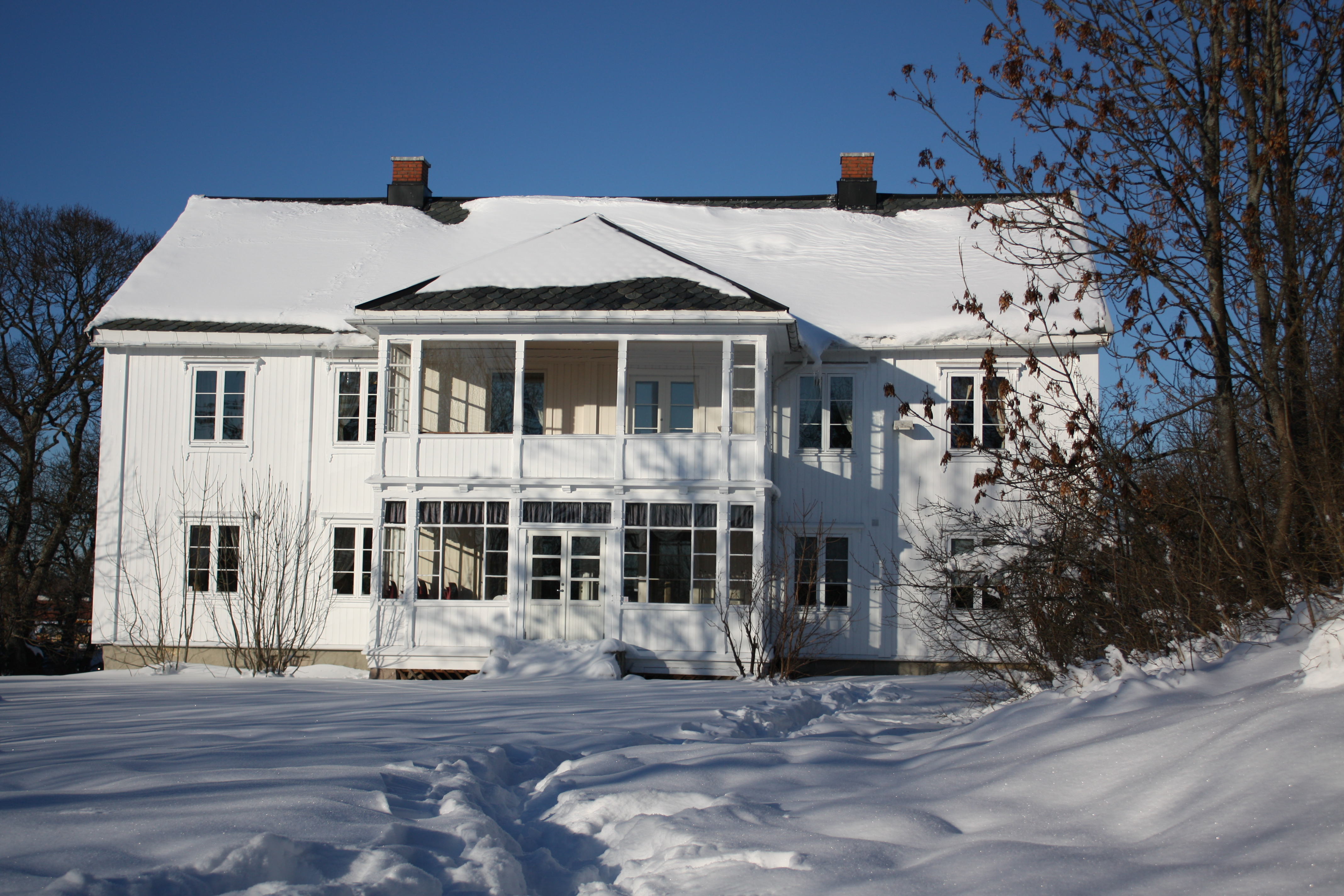 Image of Lambertseter gård